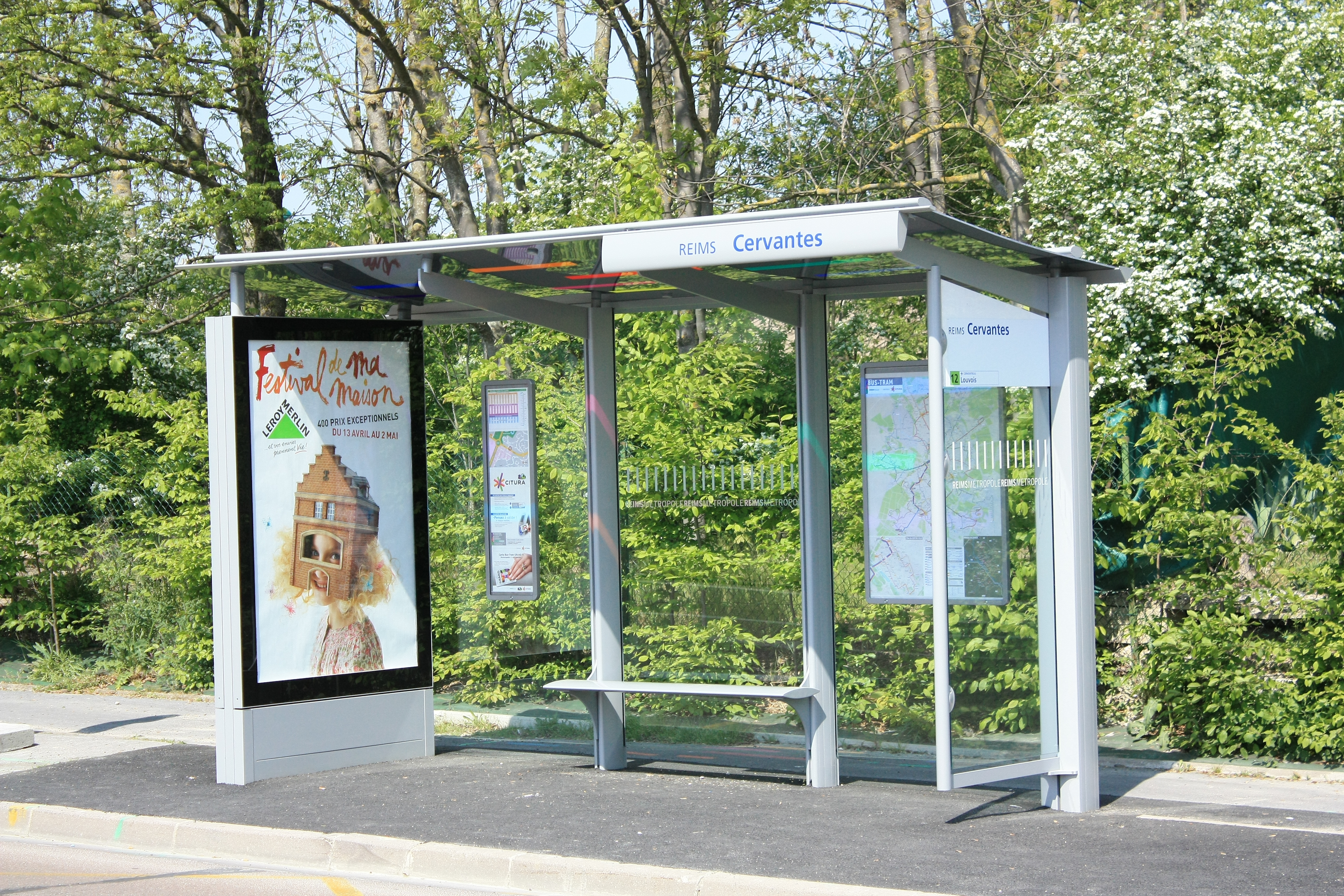 Standard bus shelter.